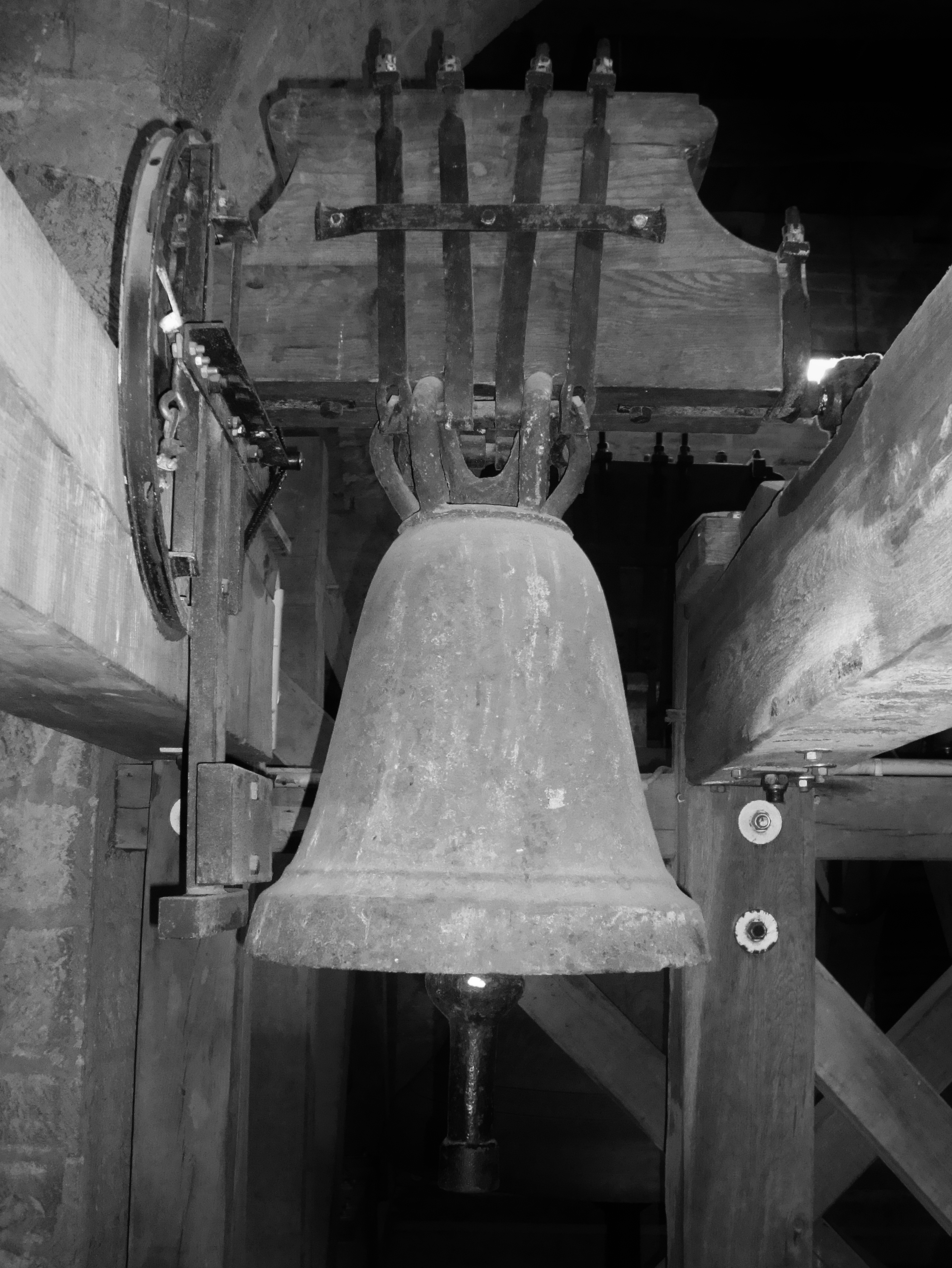 Soest, St Patroklus: minor Angelic bell, 12th century